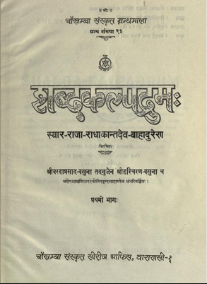 Shabdakalpadrum